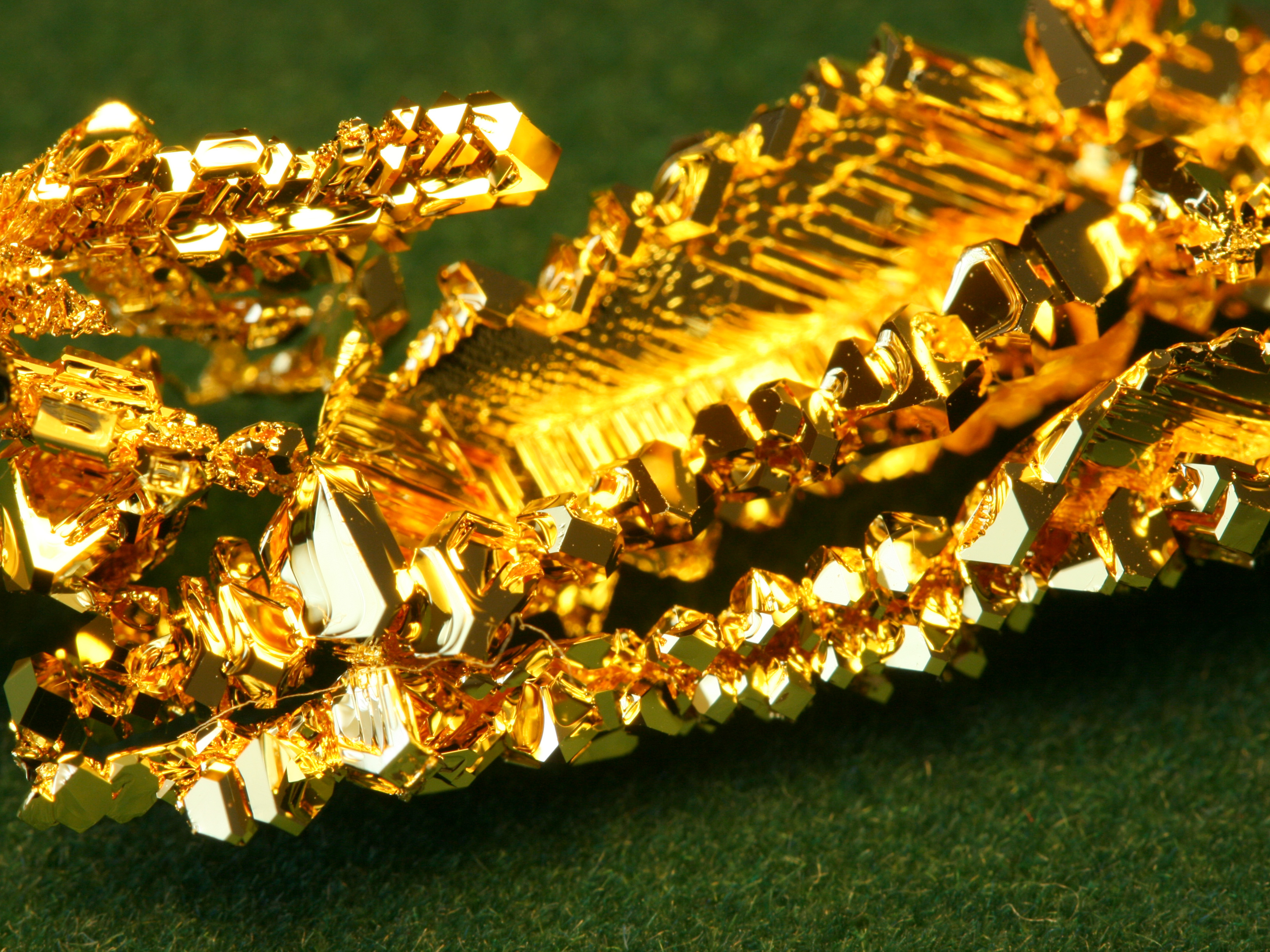 Gold crystals grown by gas phase transport.